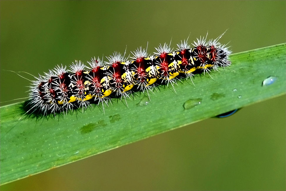 A hop merchant caterpillar. Will eventually turn into an Eastern Comma butterfly. Huntley Meadows Park in Alexandria, VA.